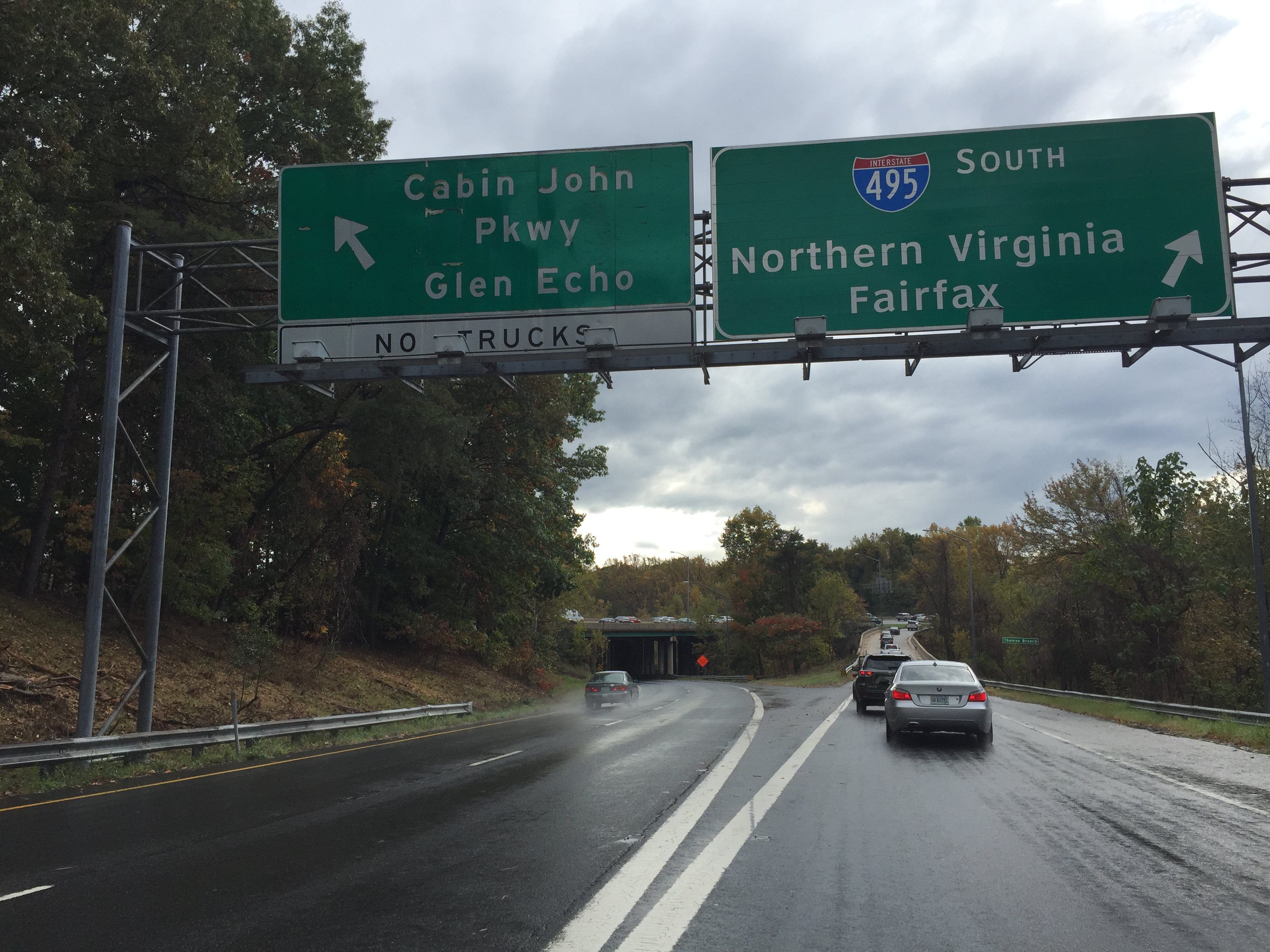 View southeast at the northwest end of the Cabin John Parkway (Interstate 495-X) at Interstate 495 (Capital Beltway) in Potomac, Montgomery County, Maryland